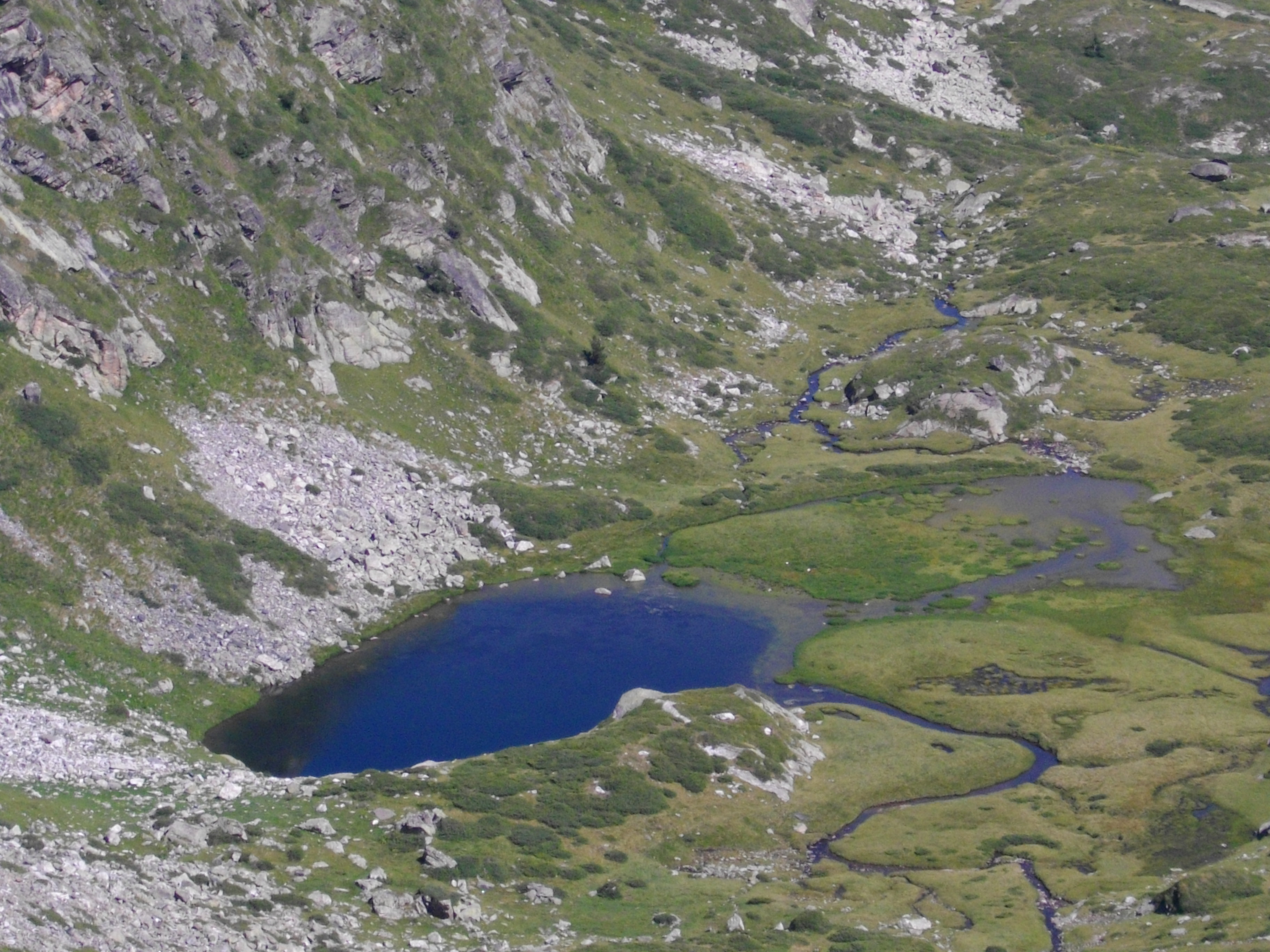 Skakavitsa lake in Rila mountain, Bulgaria